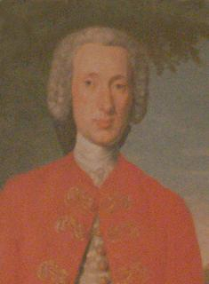 25st Governor of South Carolina